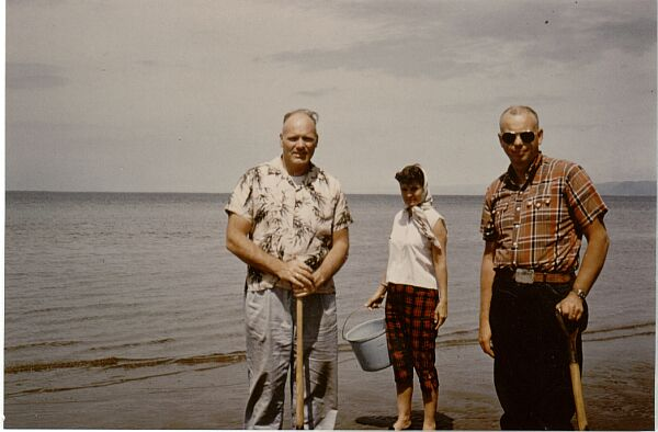 Ed Zeidler and Sgt. Erbin; Boy Scout Troop 6 Leaders.Ernest Harmon Air Force Base photos at Stephenville Newfoundland including Bayview Motel, Ray's Trailer Park, Long Gull Pond etc.